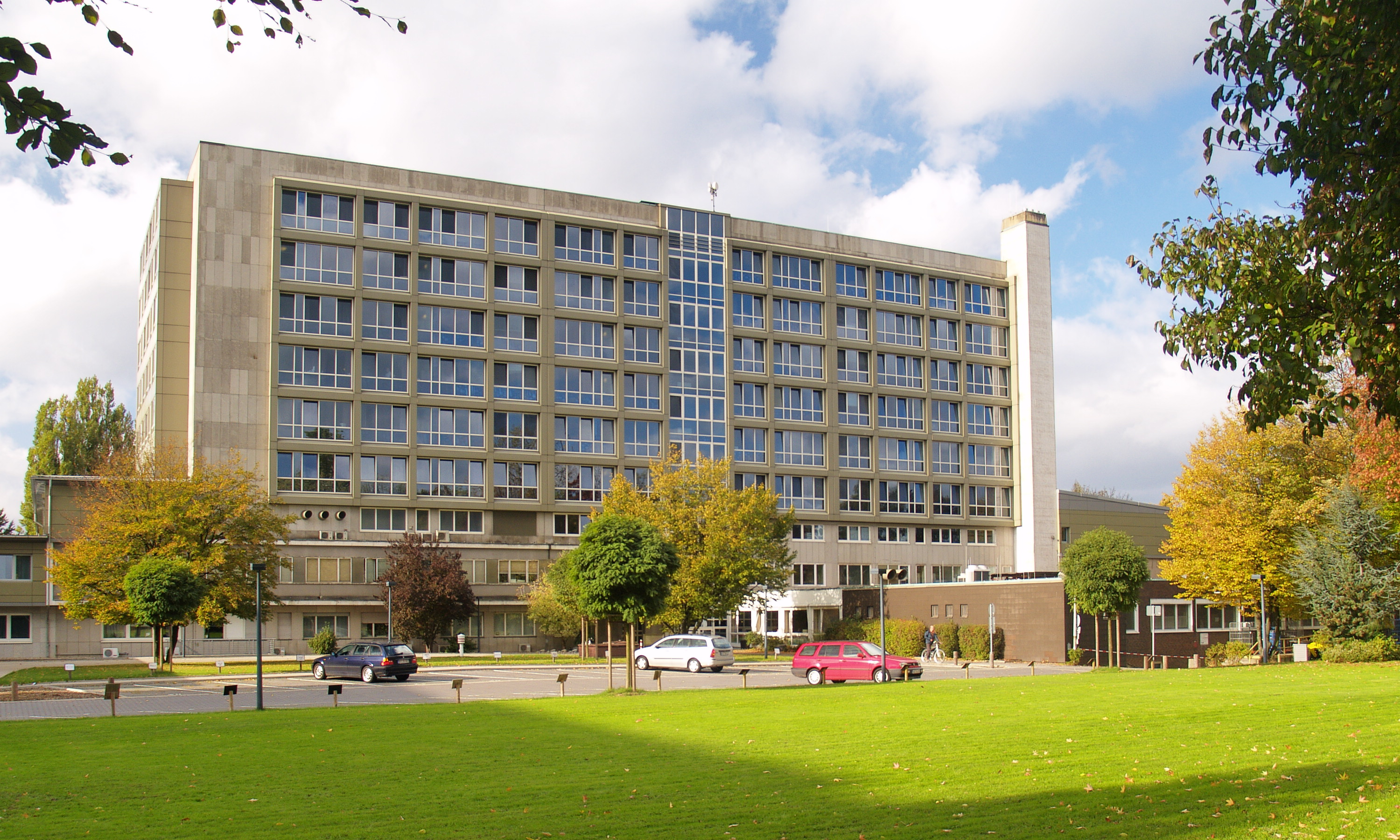 The Hospital 'Marienhospital' at Herne, eastside